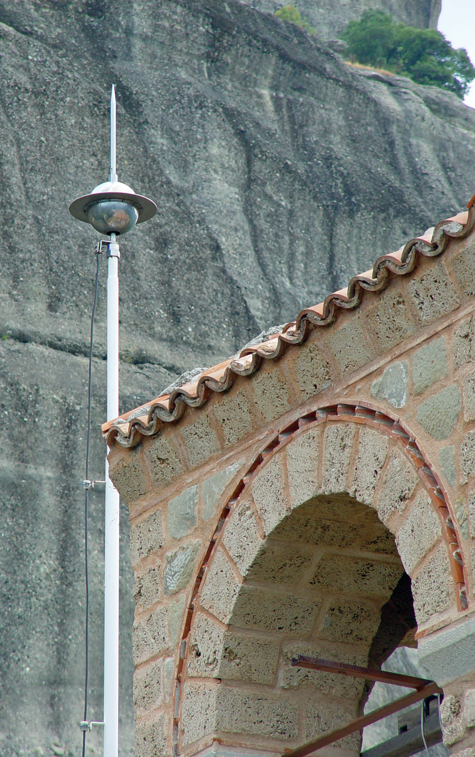 A TESLA-S early streamer lightning rod mounted at The Holy Monastery of St. Nicholas Anapausas (Μονή του Αγίου Νικολάου), Meteora, Greece.